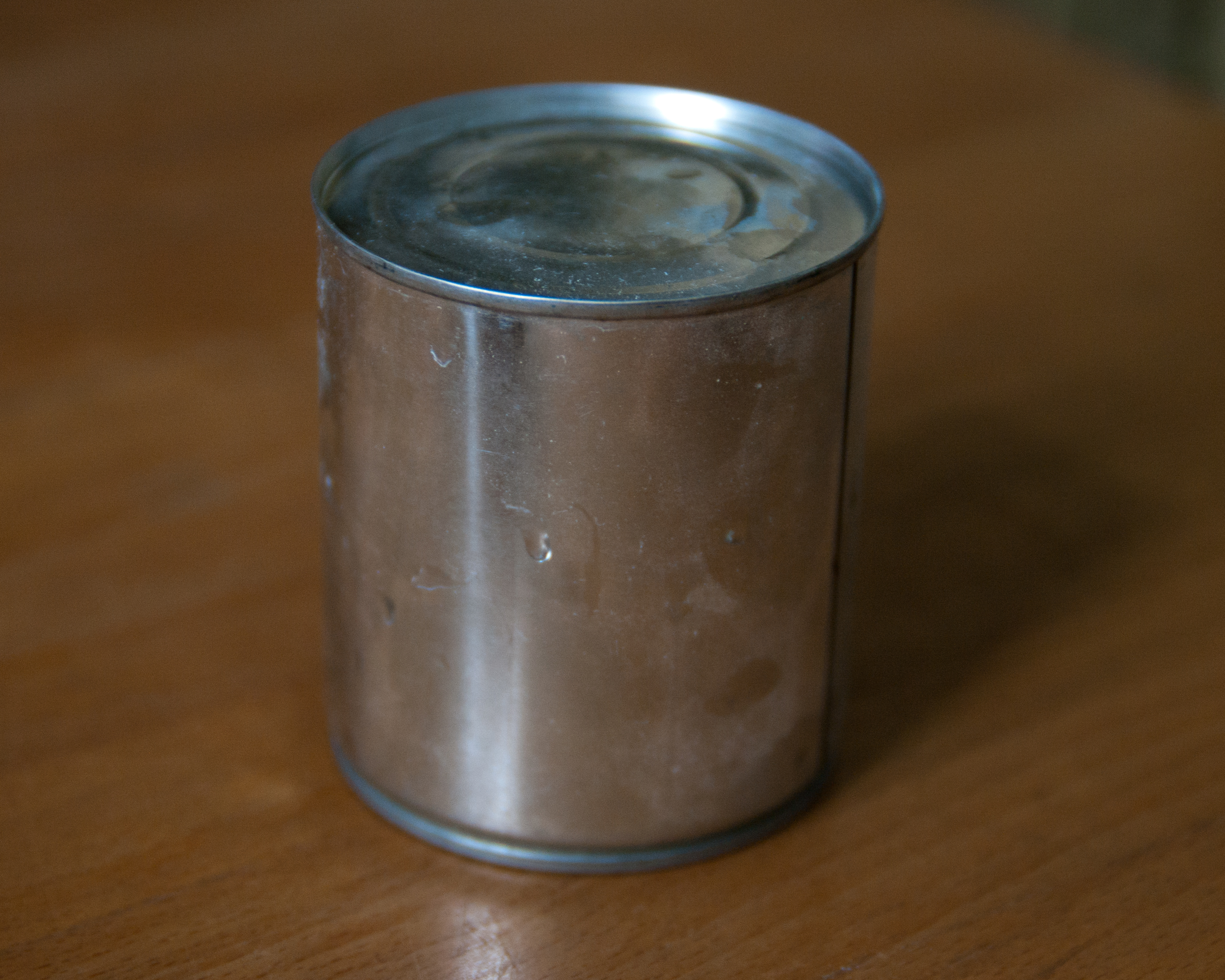 Can with sugared condesed milk.